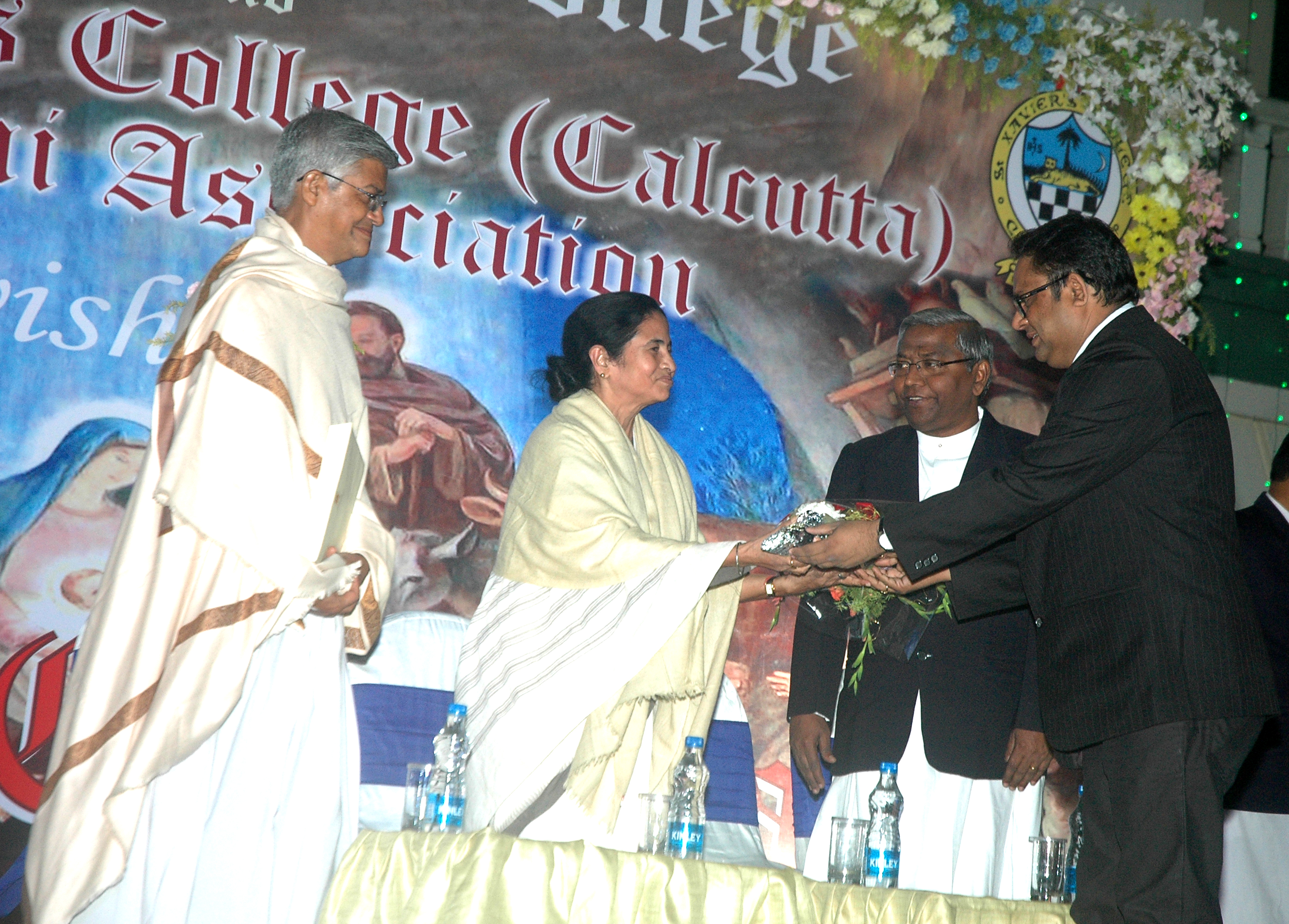 Mamta Banerjee at St.Xaviers College, Kolkata